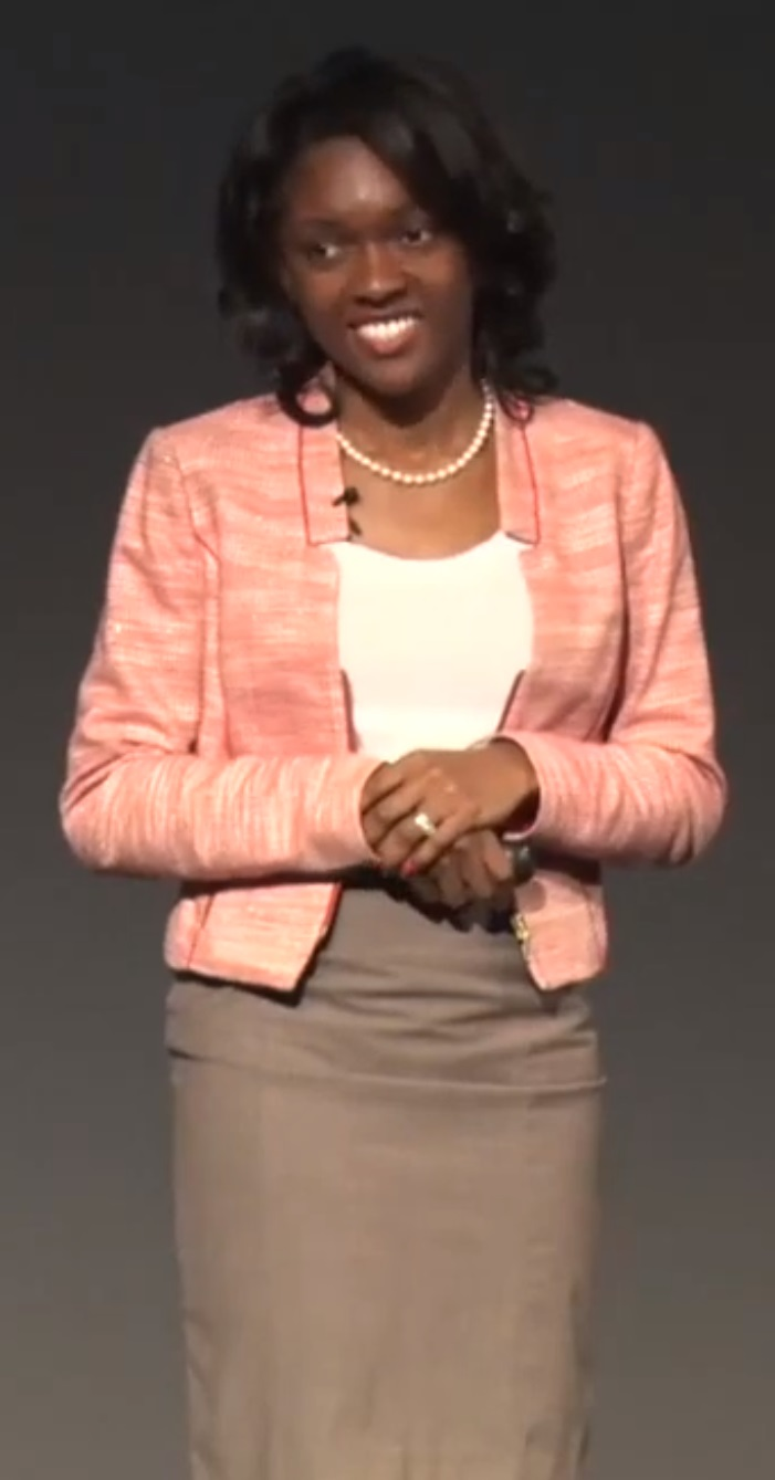 Keynote given by Prof. Muyinatu Lediju Bell of Johns Hopkins University on 'Ultrasound Image Formation in the Deep Learning Age' at the MIDL (Medical Imaging and Deep Learning) 2019 conference in London, United Kingdom. MIDL website